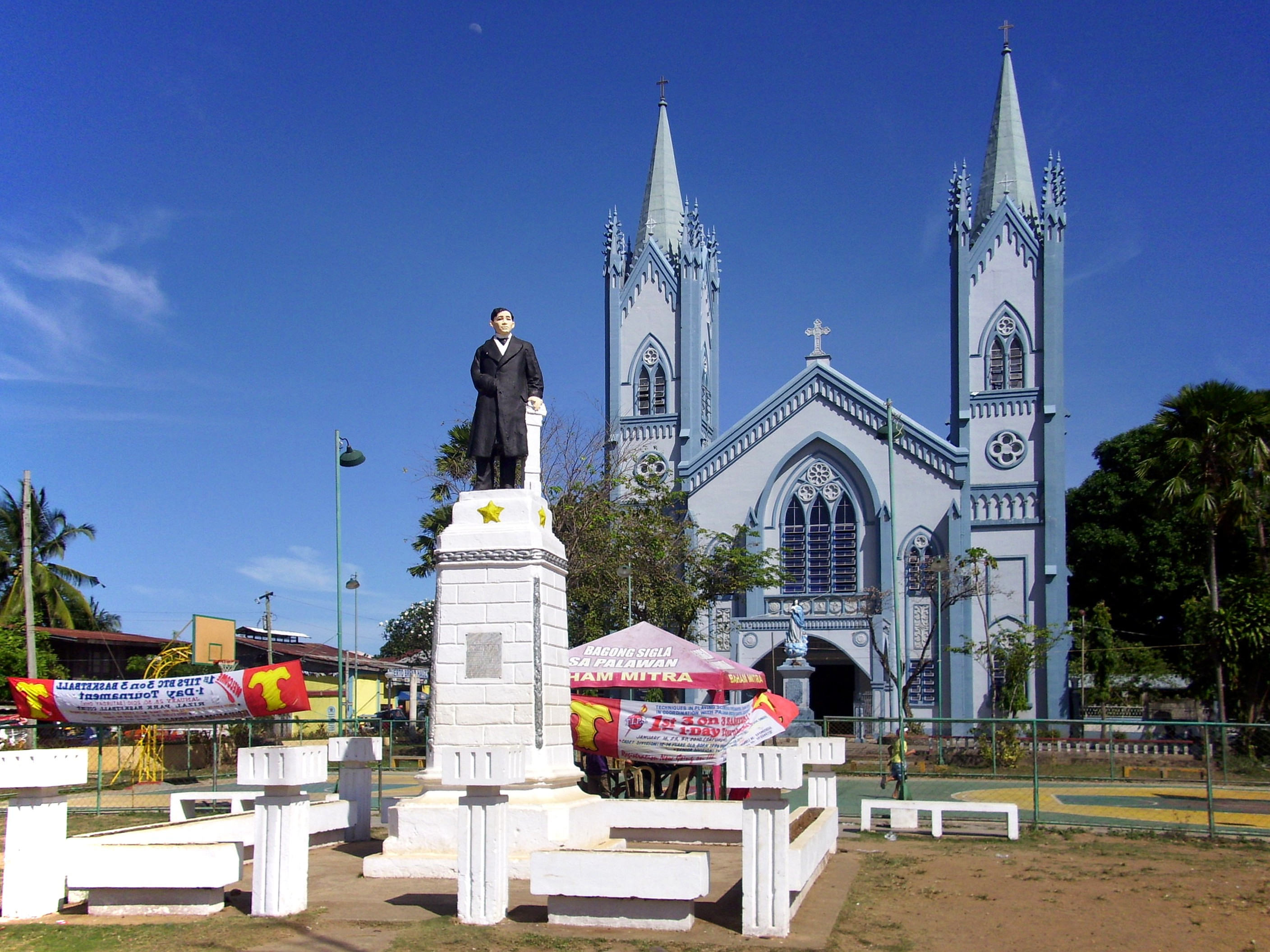 Rizal monument in front of the Cathedral of the Immaculate Conception, Puerto Princesa (Philippines)